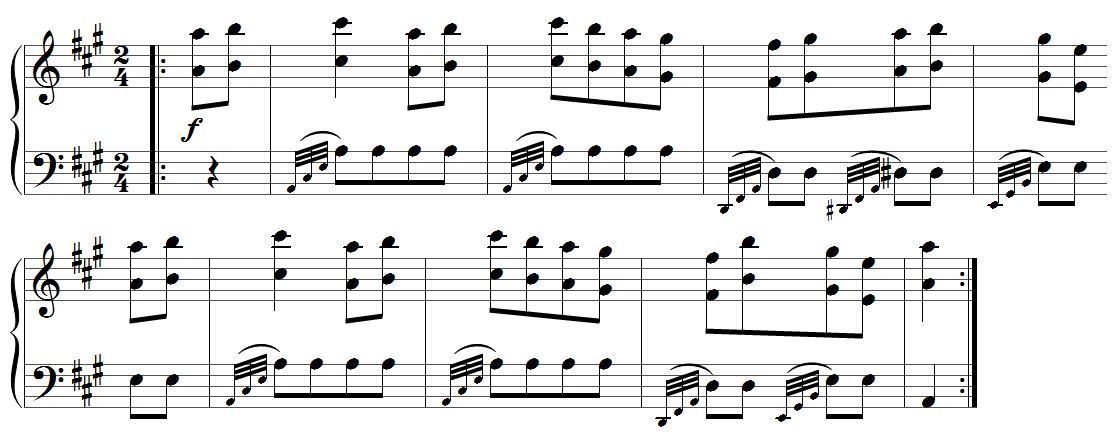 A part of the rondo "Alla Turca" from Piano Sonata No. 11 in A major, K. 331, composed by Wolfgang Amadeus Mozart